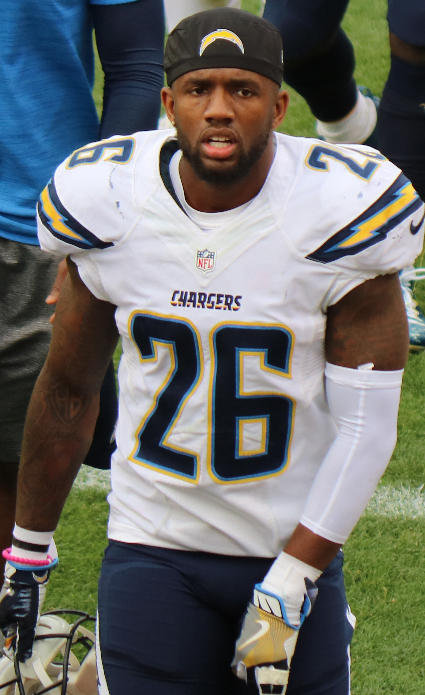 Casey Hayward, a player on the National Football League.